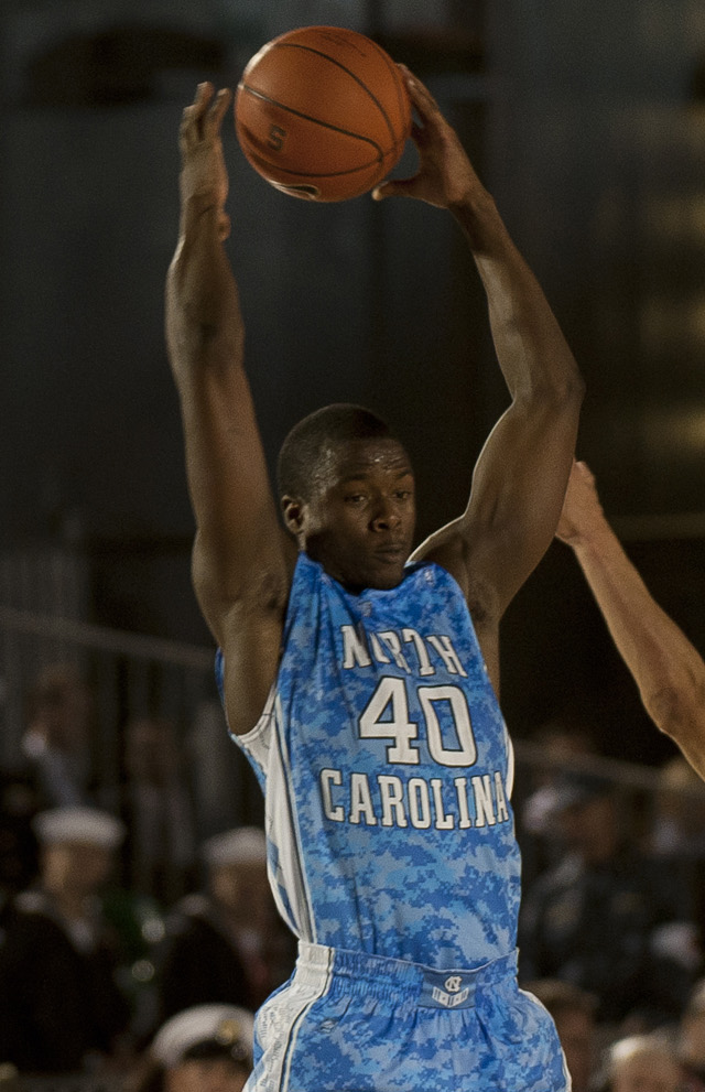 SAN DIEGO (Nov. 10, 2011) University of North Carolina's Harrison Barnes guards the ball during the Quicken Loans Carrier Classic aboard the Nimitz-class aircraft carrier USS Carl Vinson (CVN 70). Carl Vinson hosted Michigan State University and the University of North Carolina for an NCAA basketball game. (U.S. Navy photo by Mass Communication Specialist 2nd Class James R. Evans/Released)